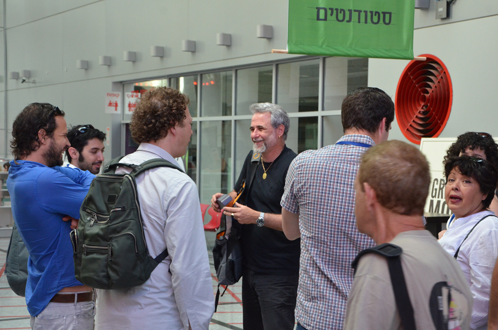 Ari Folman and Jury